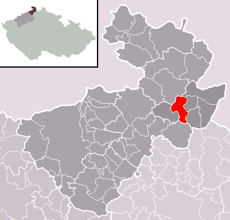 Location of Rybniště municipality within Děčín District and administrative area of Varnsdorf as a Municipality with Extended Competence.